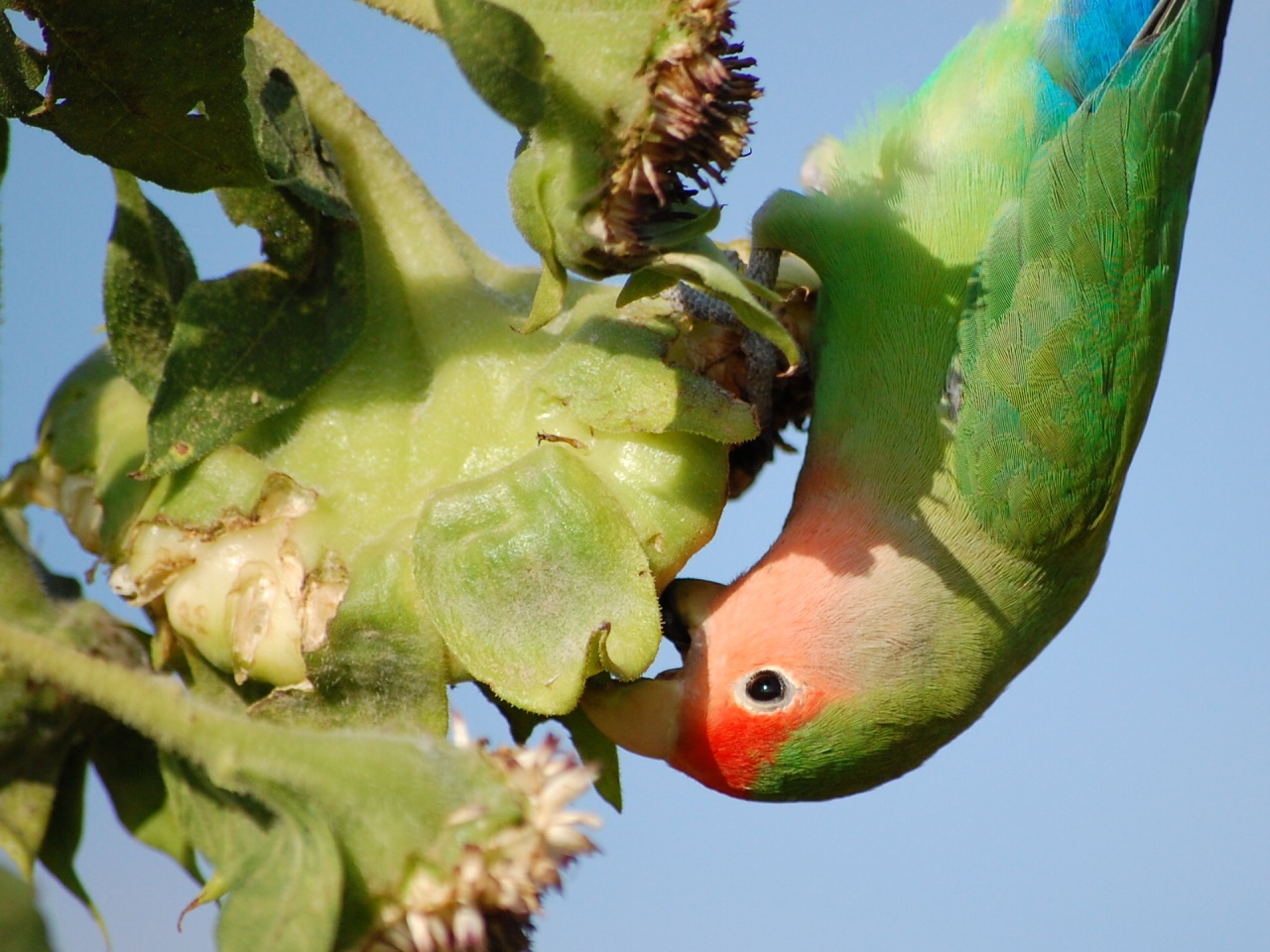 A feral Peach-faced Lovebird (Agapornis roseicollis) eating sunflower seeds at Desert Botanical Garden, Arizona, USA. Many plants and trees are grown at the gardens specifically to attract birds there.